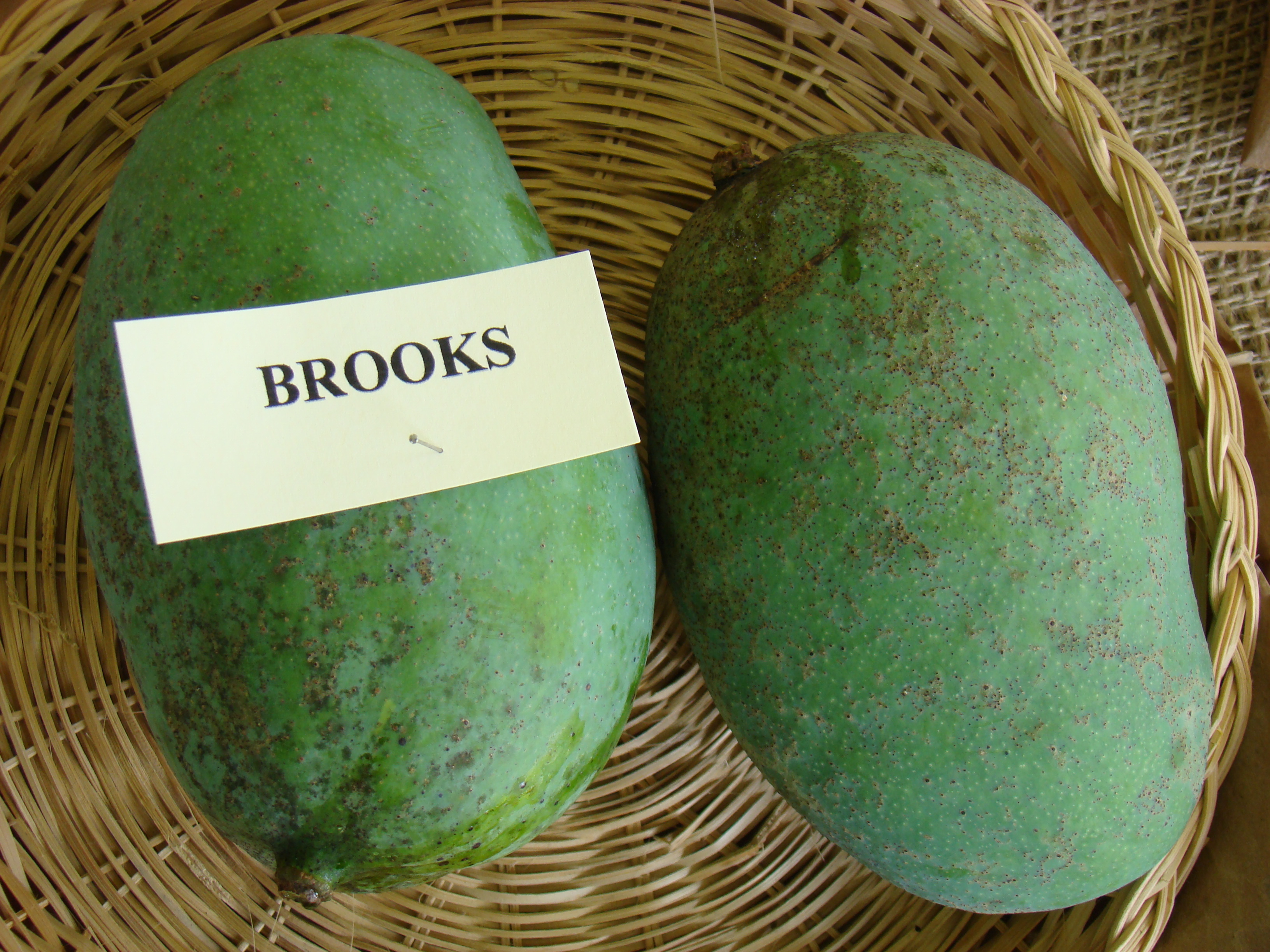 This is a photo of the display of Brooks mango at the Redland Summer Fruit Festival, Fruit & Spice Park, Homestead, Florida.